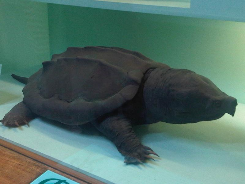 Taxidermied alligator snapping turtle (Macrochelys temminckii) at the Natural History Museum in London, England.